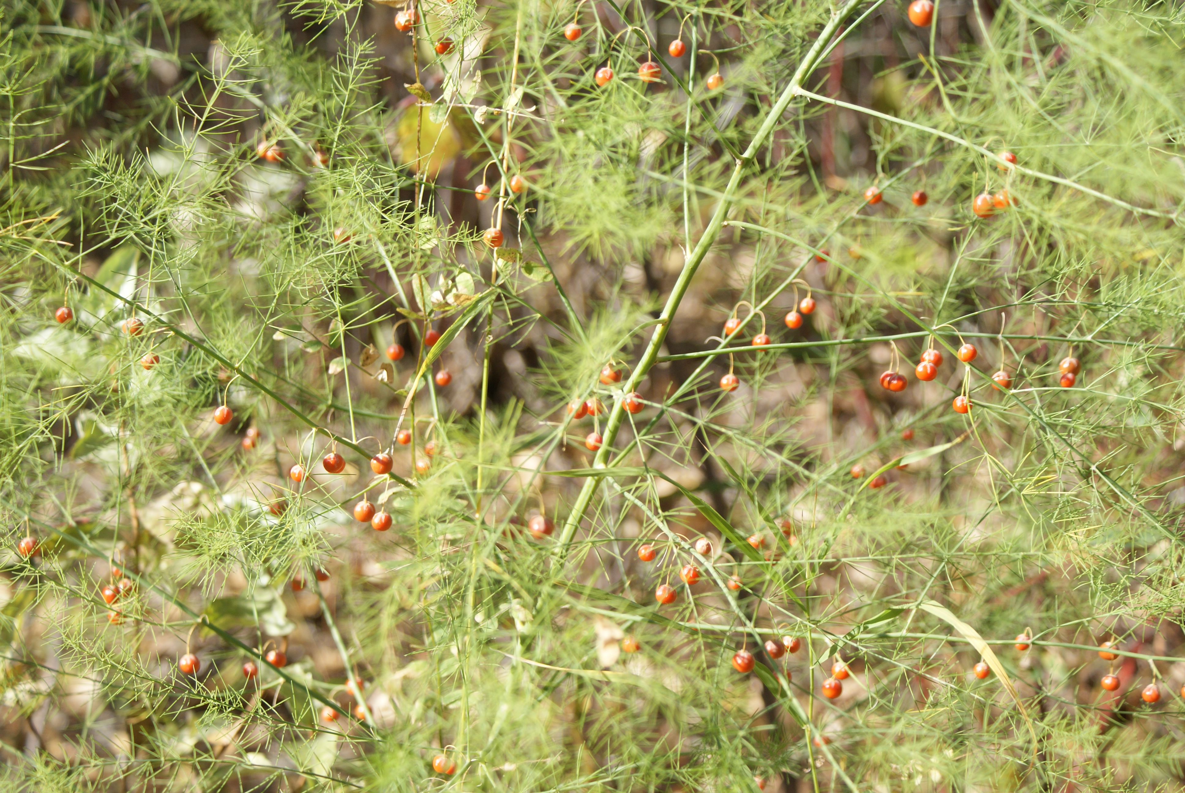 Mature Asparagus (Asparagus officinalis) Mature plant each fruit will contain 3 -4 seeds. Saskatchewan delicate fern like plant about 3 to 3.5 feet high near South Saskatchewan river with reddish brown sead type pods on it.